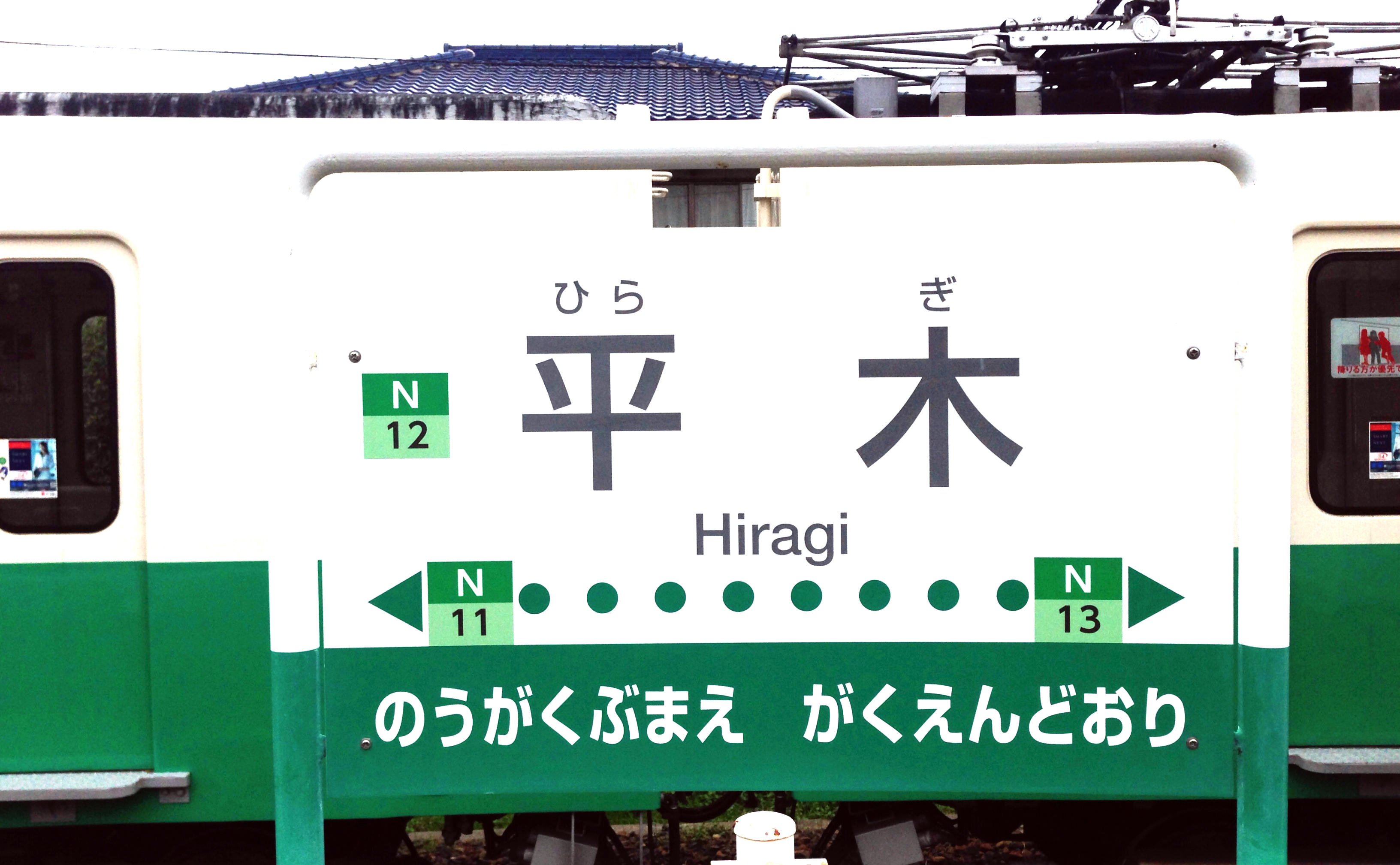 Hiragi station station name plate． (Kotoden Nagao Line)